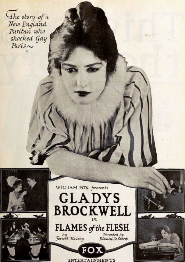 Advertisement for the American drama film Flames of the Flesh (1920) with Gladys Brockwell, on page 25 of the December 27, 1919 Exhibitors Herald.